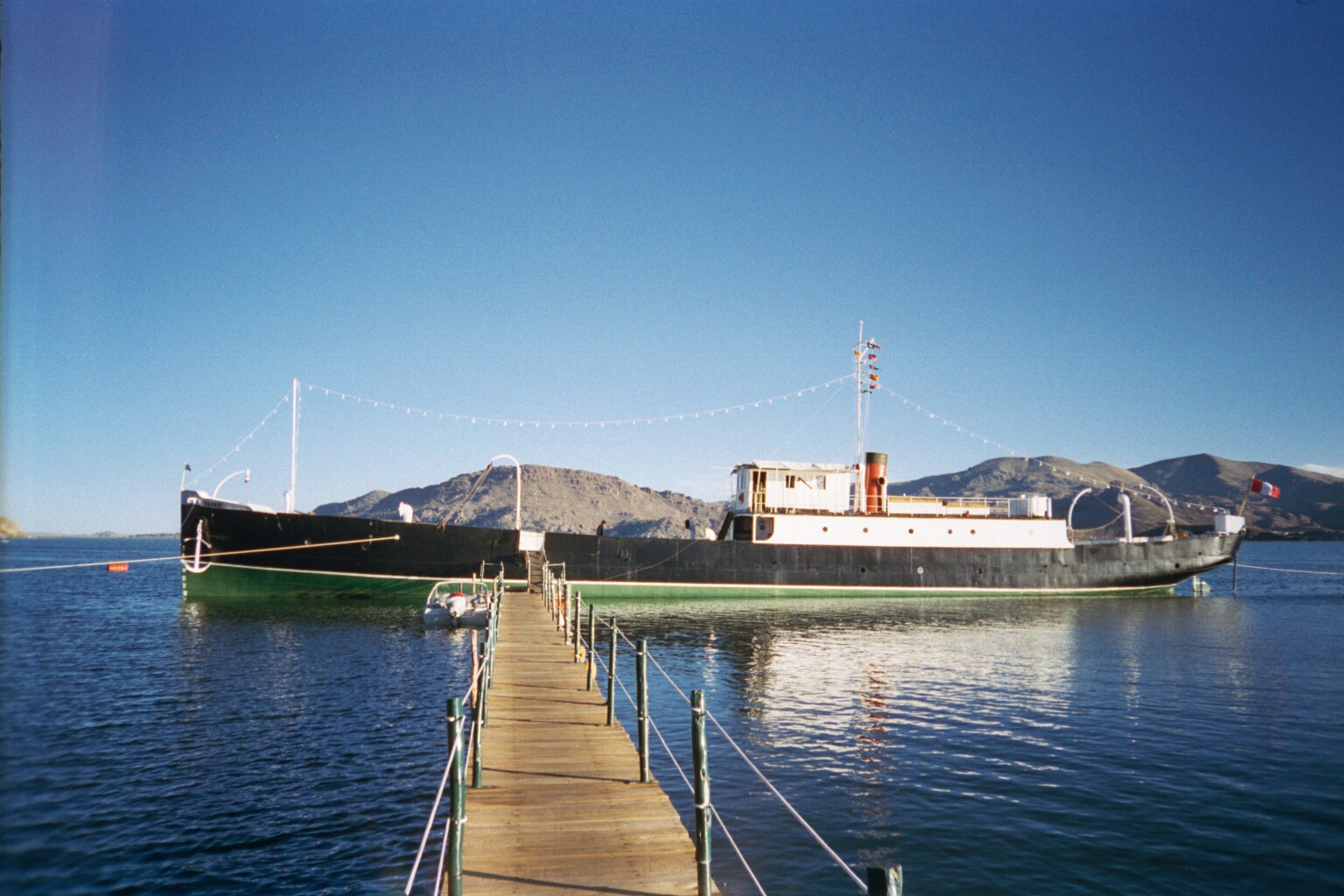 Yavari